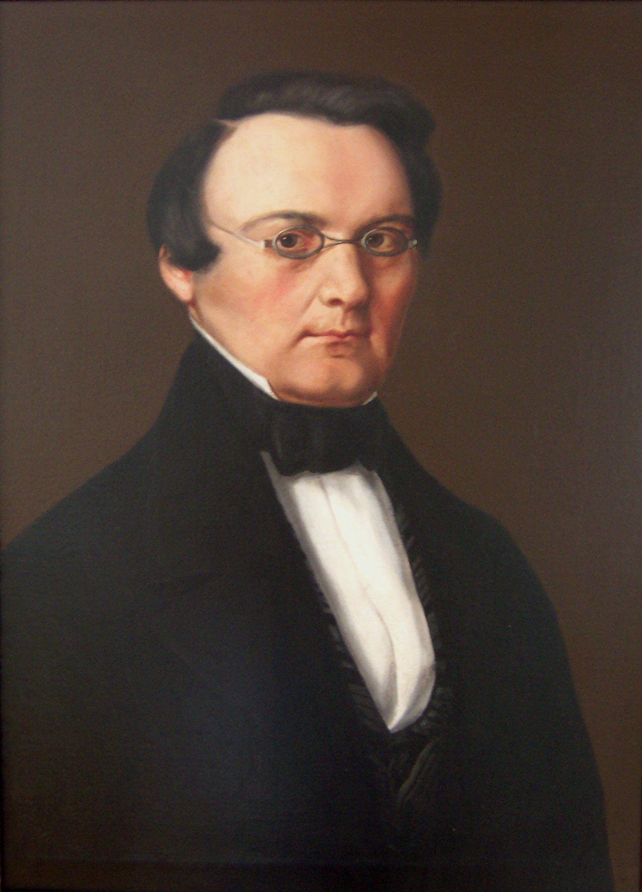 Wilhelm Matthias Naeff (1802–1881) was a Swiss politician. He was a member of the Swiss Federal Council from 1848 to 1875. He was one of the "Seven" (the seven politicians who were members of the first Swiss Federal Council [1848])